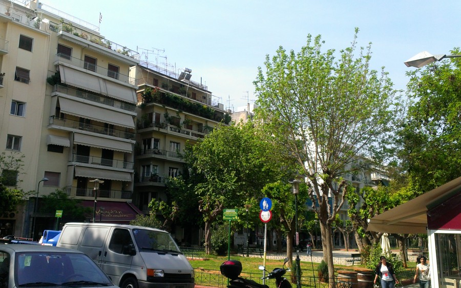 kypseli